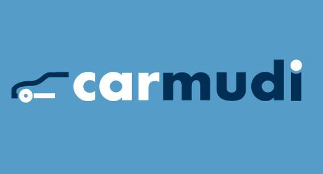 Carmudi Logo